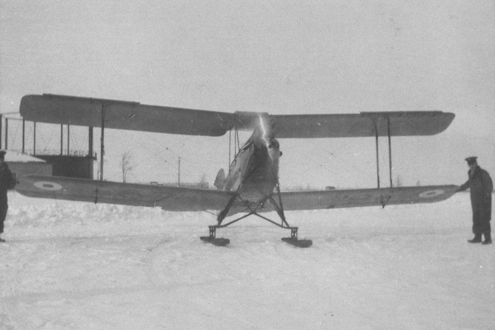 DH60 Gypsy Moth #67 of 118 Sqn RCAF during winter operations at St-Hubert Quebec in the winter of 1937.